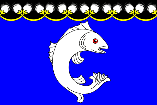 Flag of Suoyarvskoe urban settlement, Karelia, Russia